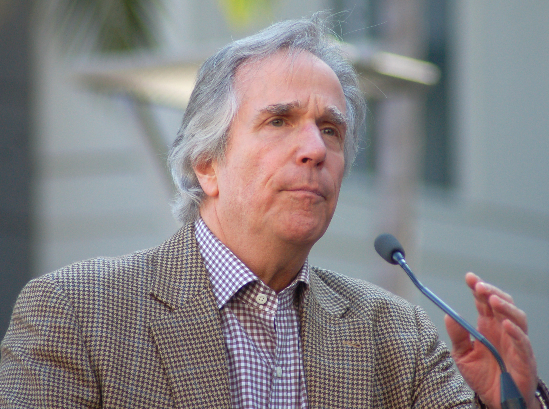 Henry Winkler at a ceremony for Adam Sandler to receive a star on the Hollywood Walk of Fame.